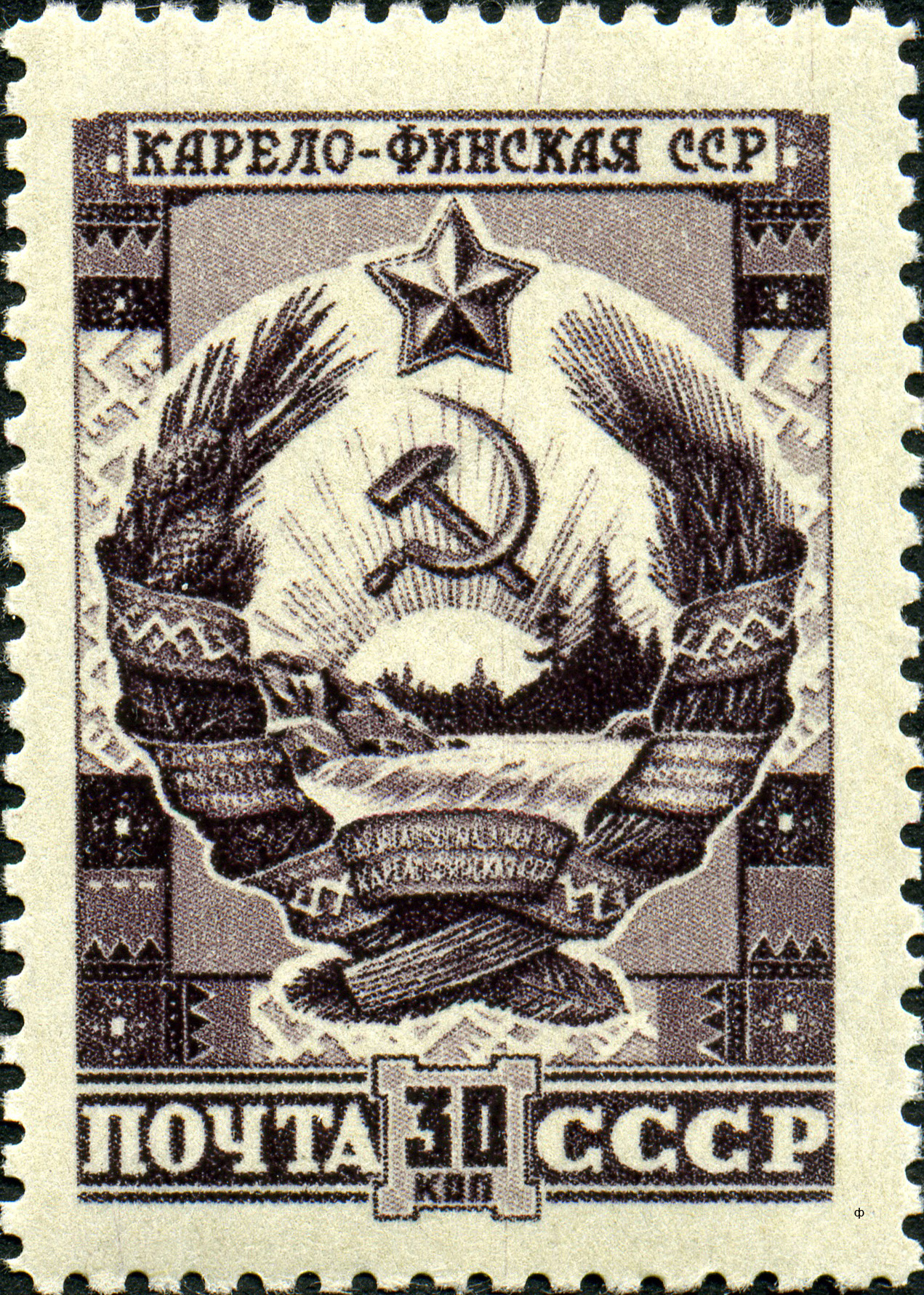 USSR stamp: Karelo-Finnish SSR coats of arms. Series: Coats of arms of Soviet Republics (date of issue: 9th February 1947; designer: V. Andreev; paper: ordinary; printing process: photo; perforation: line 12 1/4; size: 26 x 37 mm.; sheet composition: 100 (10 x 10) stamps; printing run: 2.000.000; Michel catalogue numbers: 1092-1107). Stamps of the series: 30 K. orange-brown. Arms of RSFSR; 30 K. brown. Arms of Armenian SSR; 30 K. bistre. Arms of Azerbaijan SSR; 30 K. olive-green. Arms of Byelorussian SSR; 30 K. slate-grey. Arms of Estonian SSR; 30 K. brown-violet. Arms of Georgian SSR; 30 K. deep dull purple. Arms of Karelian SSR; 30 K. red-orange. Arms of Kazakhstan SSR; 30 K. deep dull purple. Arms of Kirgisian SSR; 30 K. yellow-brown. Arms of Latvian SSR; 30 K. blackish olive. Arms of Lithuanian SSR; 30 K. lilac-brown. Arms of Moldavian SSR; 30 K. deep dull green. Arms of Tadzhikistan SSR; 30 K. black. Arms of Turkmenian SSR; 30 K. violet-blue. Arms of Ukrainian SSR; 30 K. olive-brown. Arms of Uzbek SSR.